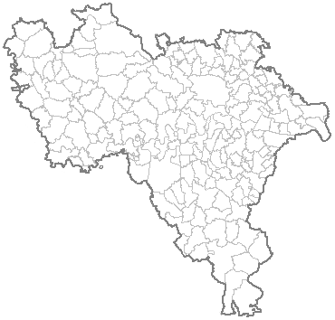 Maps of municipality of province of Pavia (Lombardy) in Italy